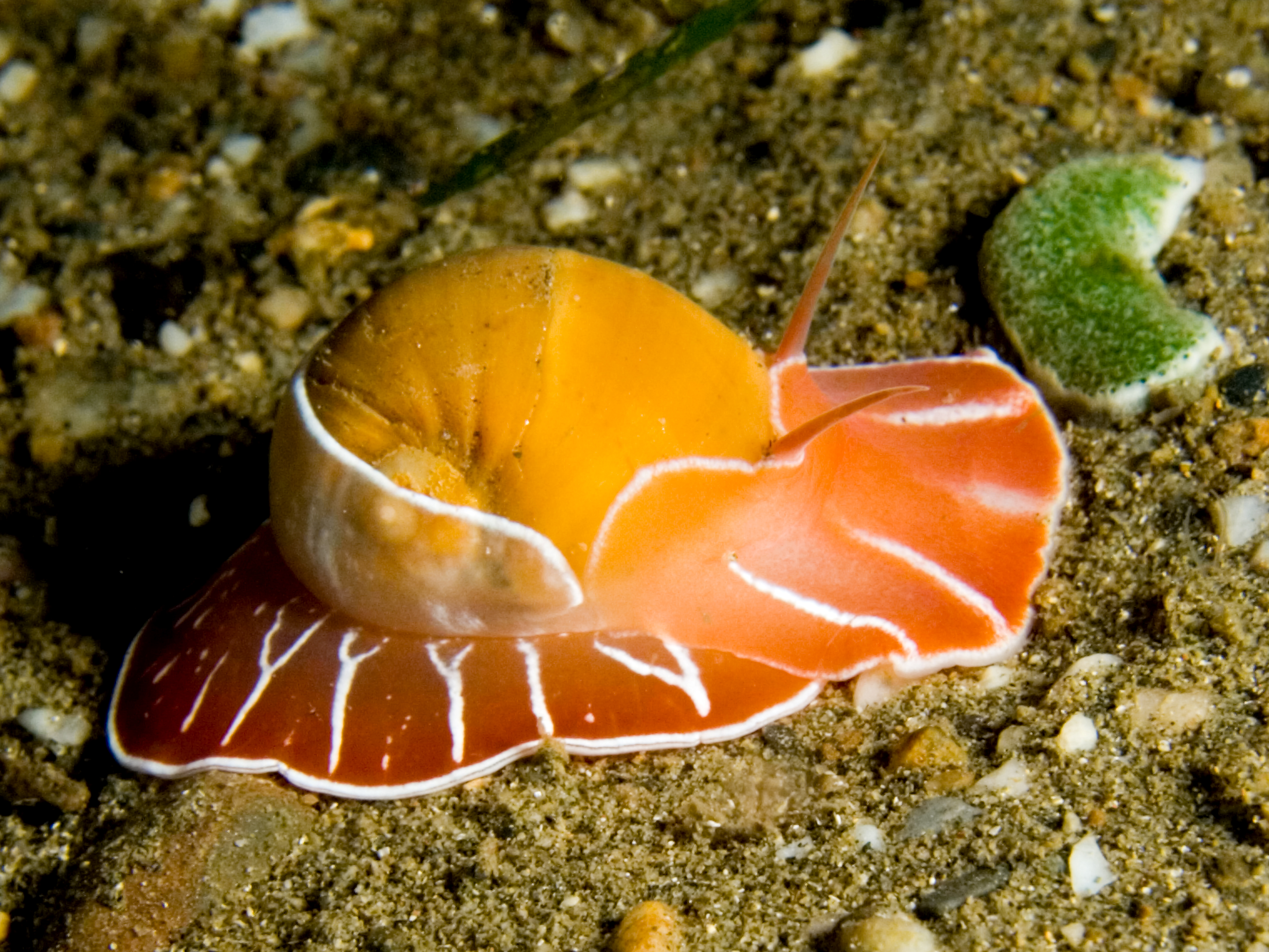 Nocturnal Moon Naticarius orientalis snail found on North coast East Timor. This snail is active mostly at night, and during the day is inactive, generally buried under the sand.